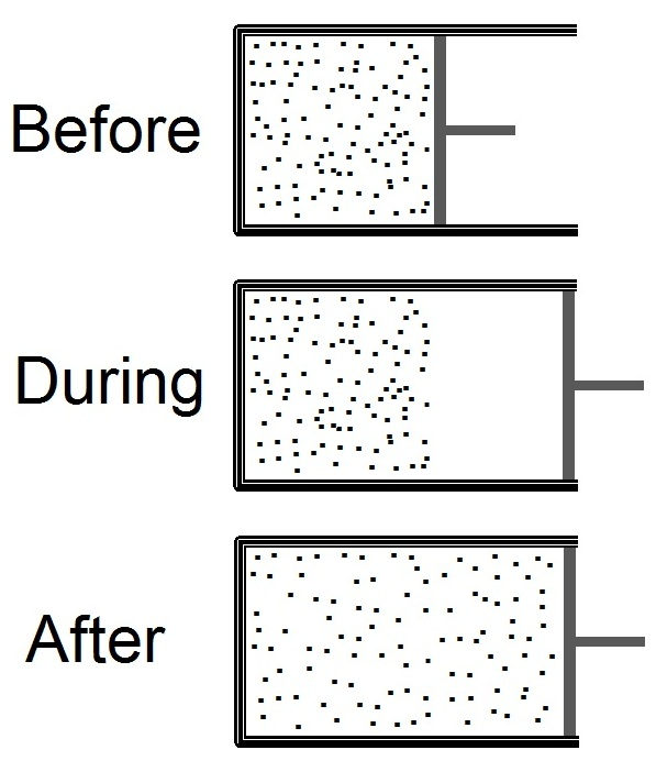 A sudden expansion of a gas can be achieved by moving the piston faster than the fastest atoms in the gas.